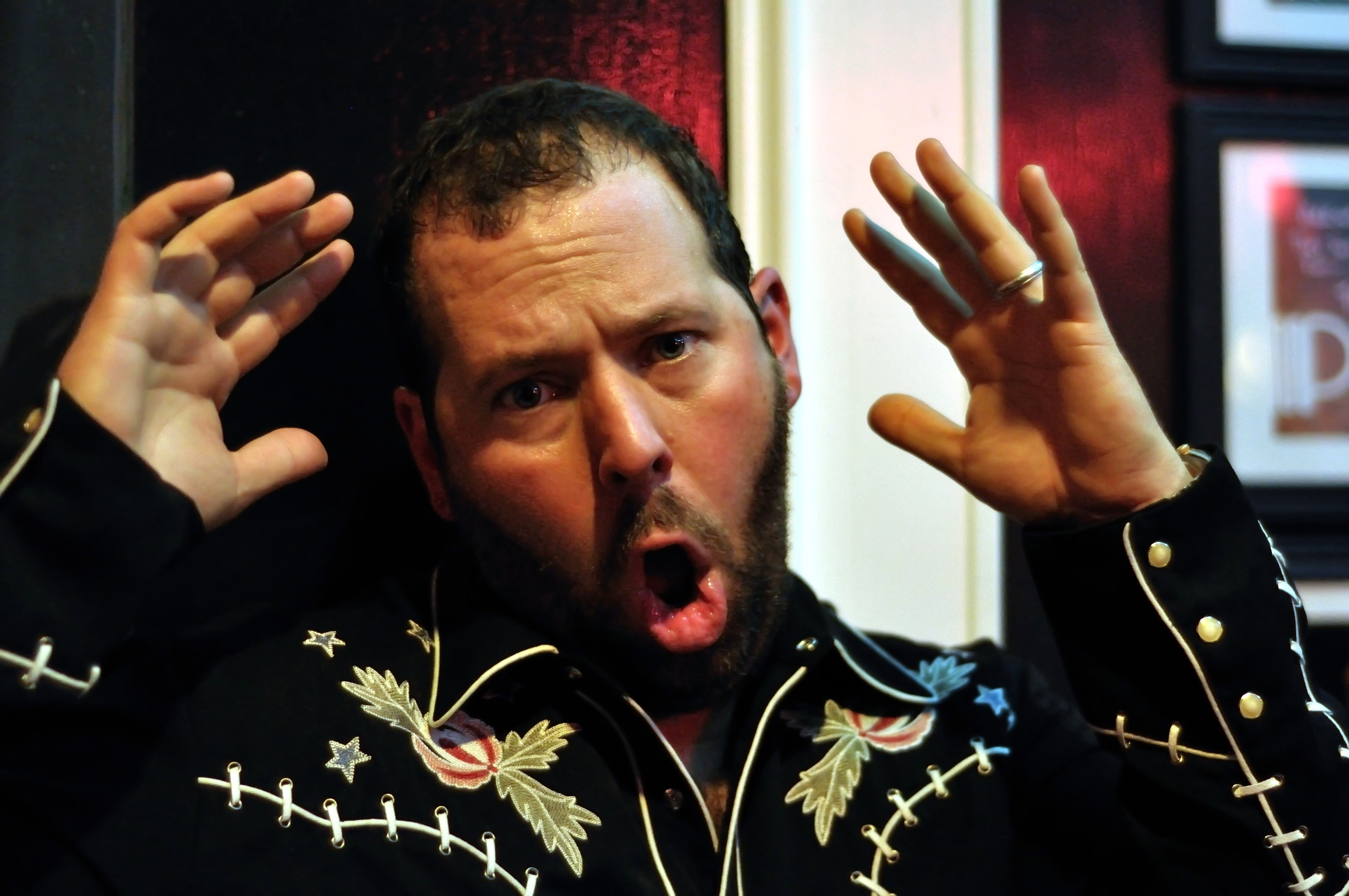 Bert Kreischer at the Addison Improv.